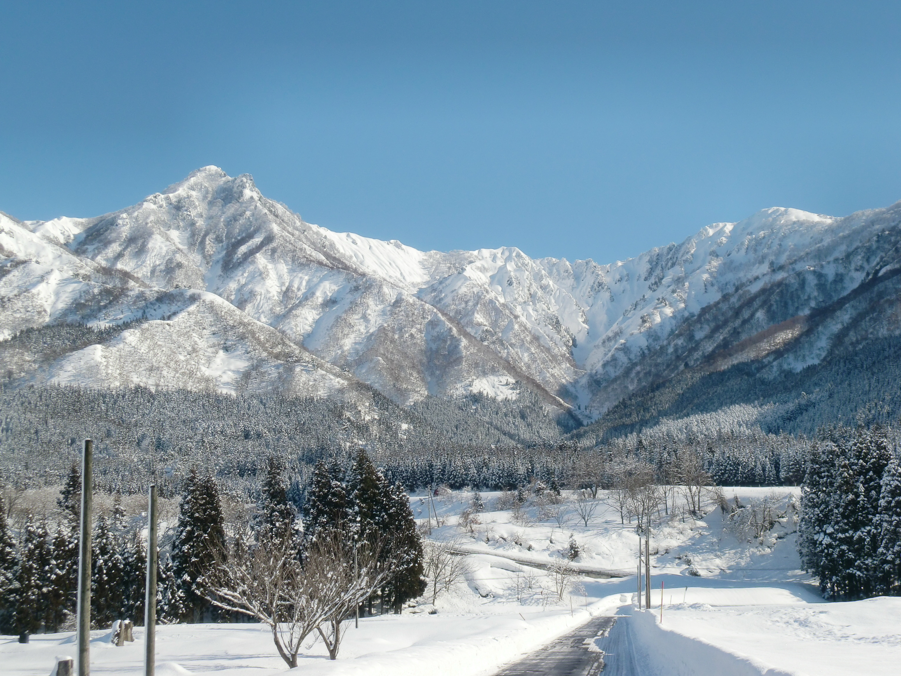 Mount Kinjo (Kinjo-san) in snow